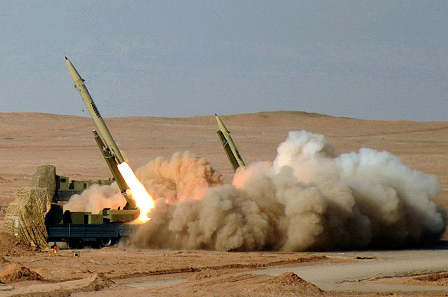 Great Prophet VII Maneuver held in three eastern provinces of Iran.(Semnan Province-Kerman Province-Sistan and Baluchestan Province) by The Aerospace Force of the Army of the Guardians of the Islamic Revolution (AFAGIR).